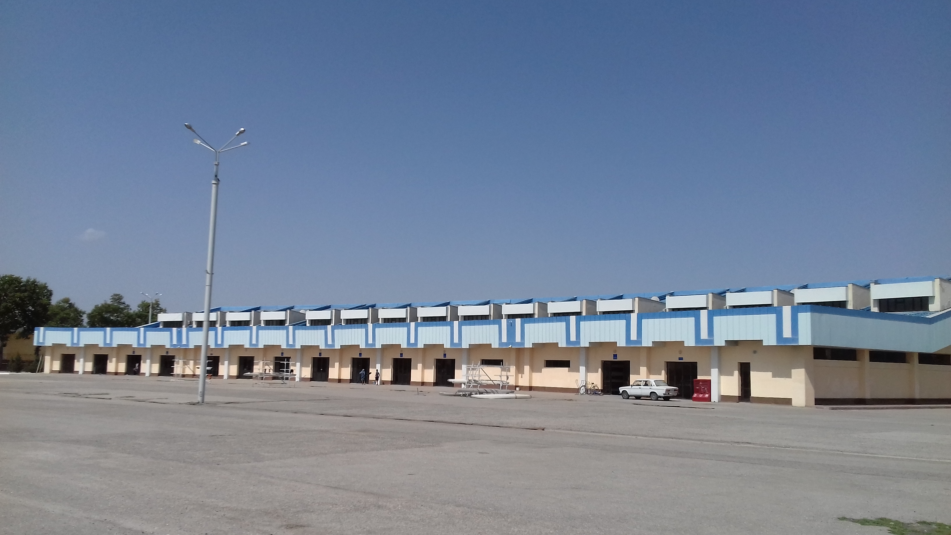 Samarkand Rowing Canal Sportcomplex (Uzbekistan)